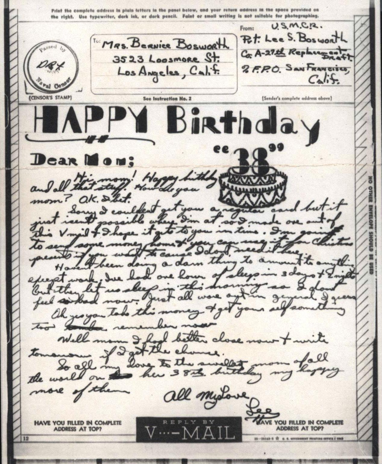 Happy 38th Birthday v-mail sent from Lee Bosworth to his mother, Bernice. "Dear Mom; Hi mom! Happy birthday and all that stuff. How are you mom? Ok I bet. Sorry I couldn't get you a regular card but it just isn't possible where I'm at so I made one out of this v-mail and I hope it gets to you in time. I'm going to send some money home and you can use it for Christmas presents if you want to cause I don't need it here. Haven't been doing a darn thing to amount to anything except work. I've had one hour of sleep in 3 days and 2 nights but they let us sleep in this morning so I don't feel so bad now. Just all wore out in general I guess. Oh yes you take this money and get your self something too remember now. Well mom I had better close now and write tomorrow if I get the chance. So all my love to the swellest mom of all the world on her 38th birthday many happy more of them. All My Love, Lee" From the collection of Lee S. Bosworth (COLL/5133), United States Marine Corps Archives & Special Collections